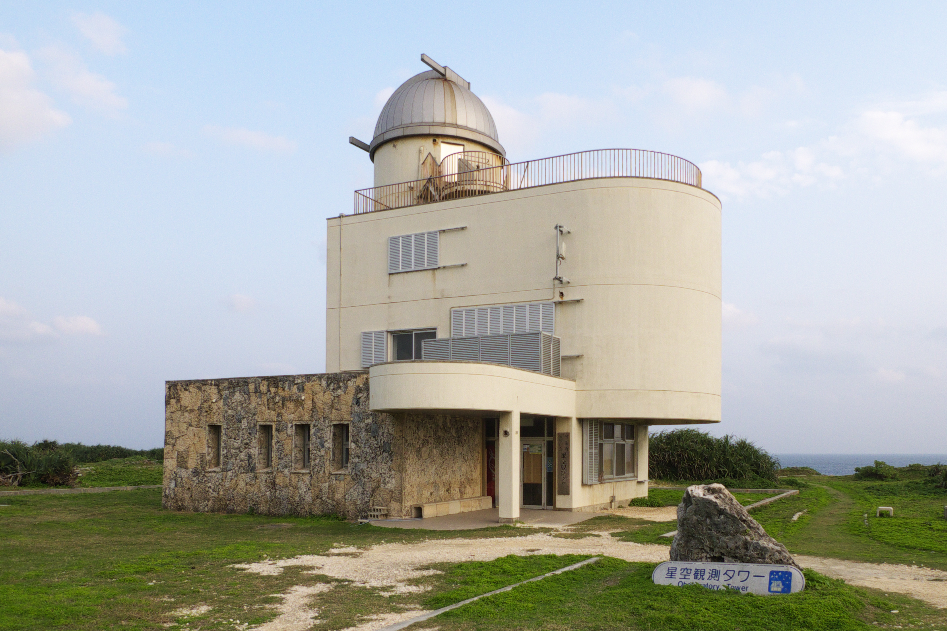 Observatory tower on Hateruma Island, Okinawa Prefecture, Japan